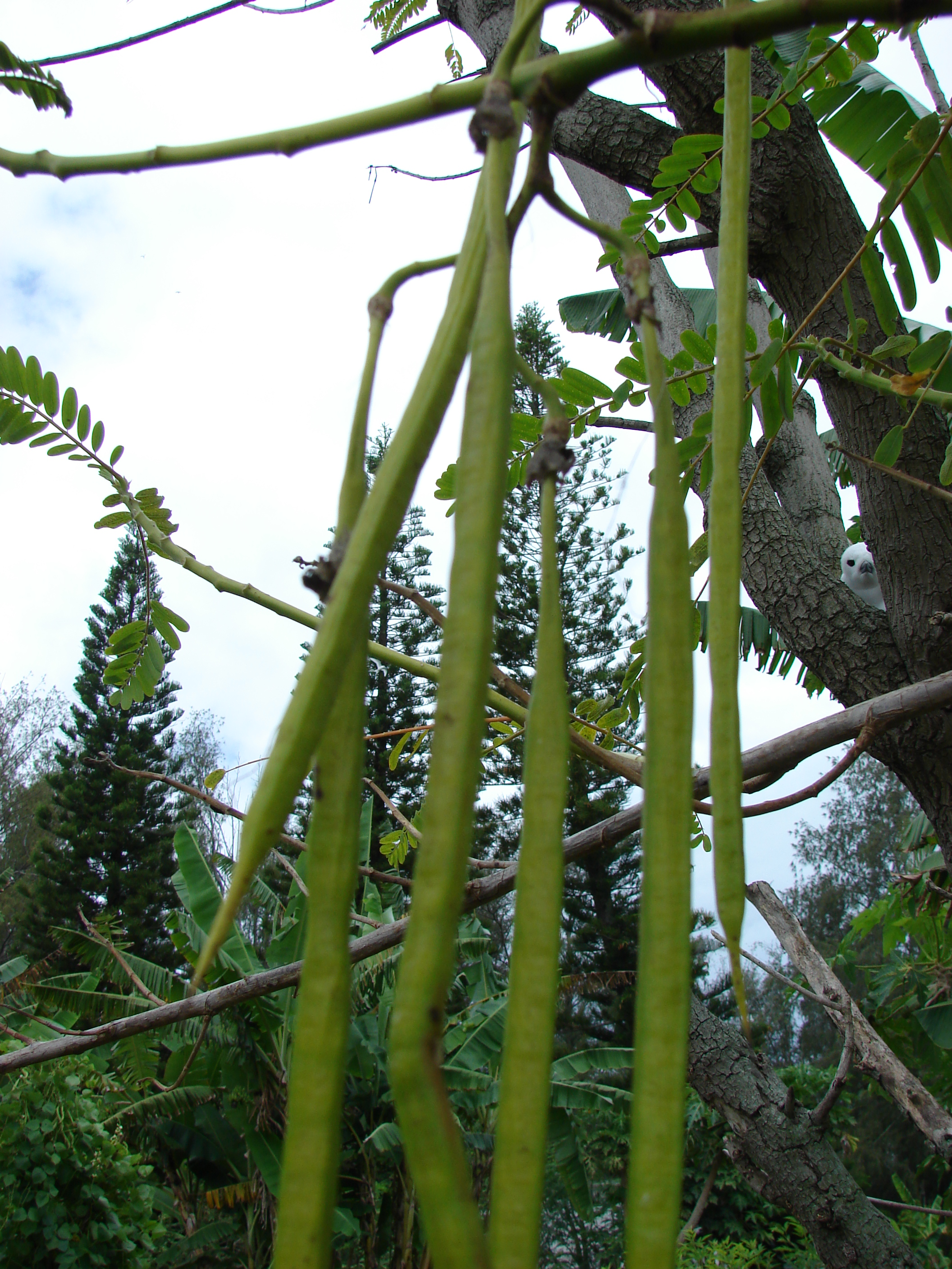 Sesbania grandiflora (pods). Location: Midway Atoll, Community Garden Sand Island